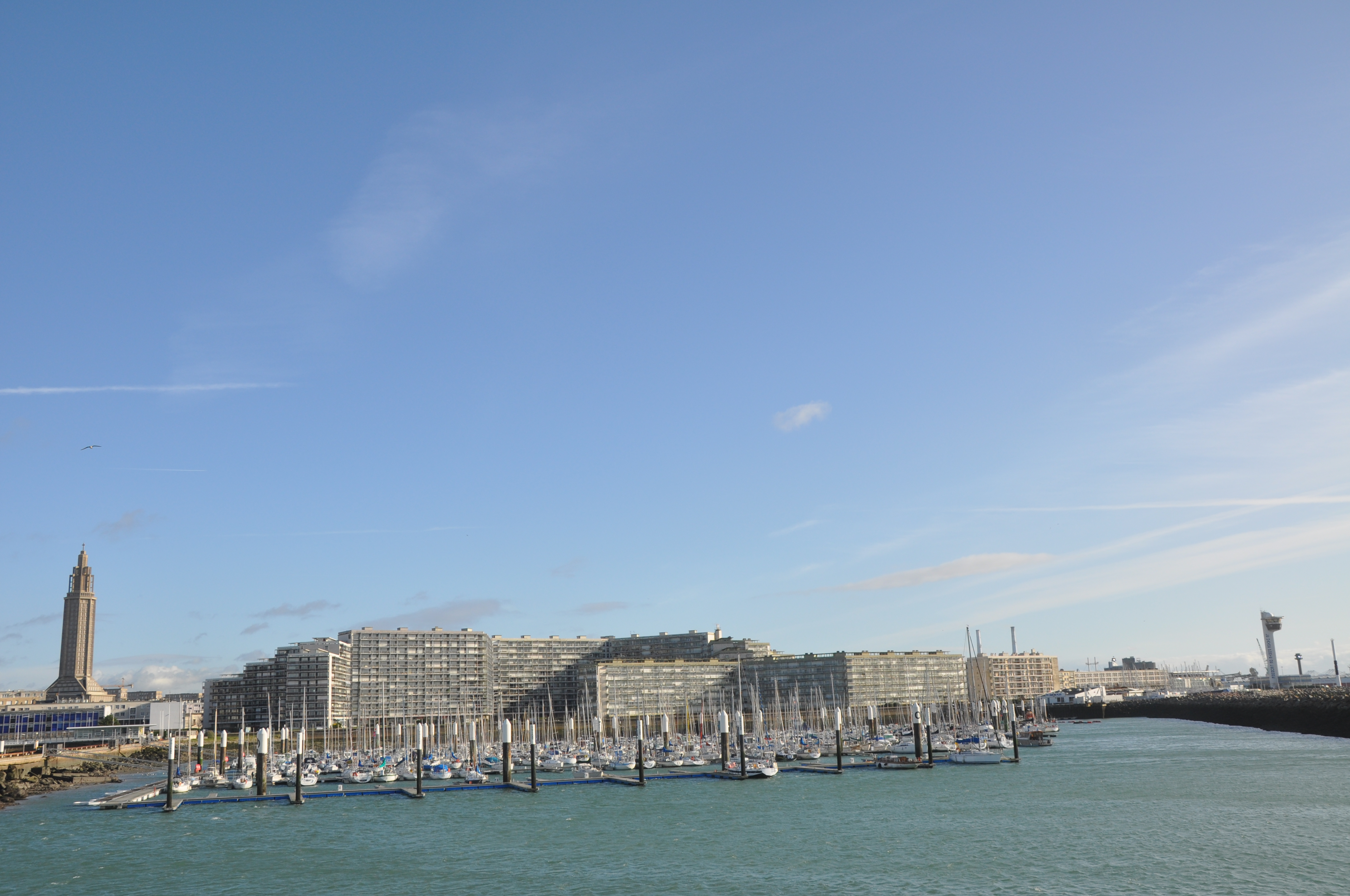 Le Havre (France), between St Joseph church and semaphore.